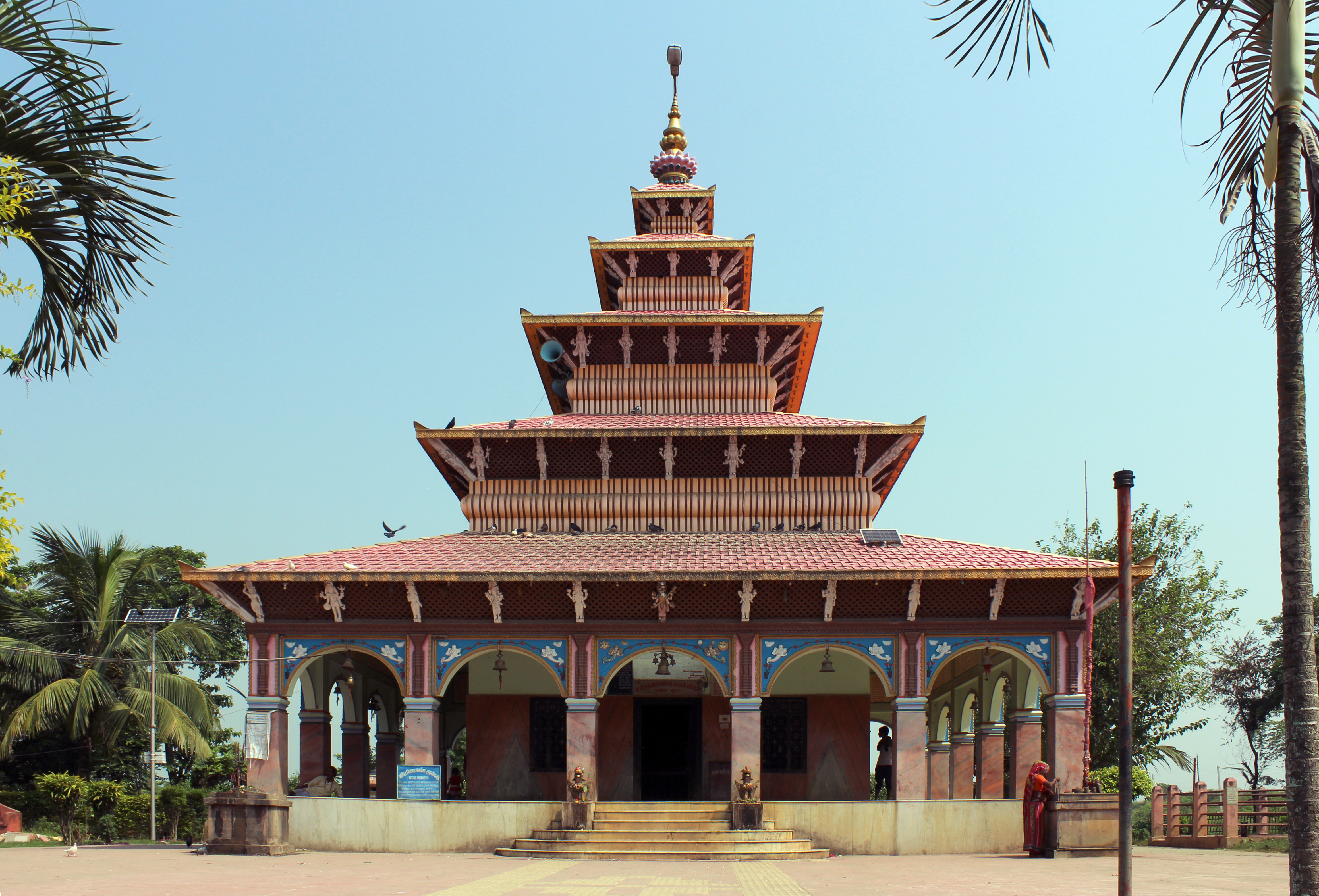 A view of Kankalini Temple.